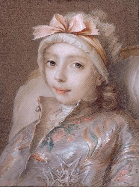 Louis Joseph Xavier de France (1751–1761), Duke of Burgundy, eldest son of Dauphin Louis and Marie Josèphe of Saxony